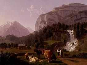 Balm, a part of Meiringen (Switzerland), with the Reichenbachfall